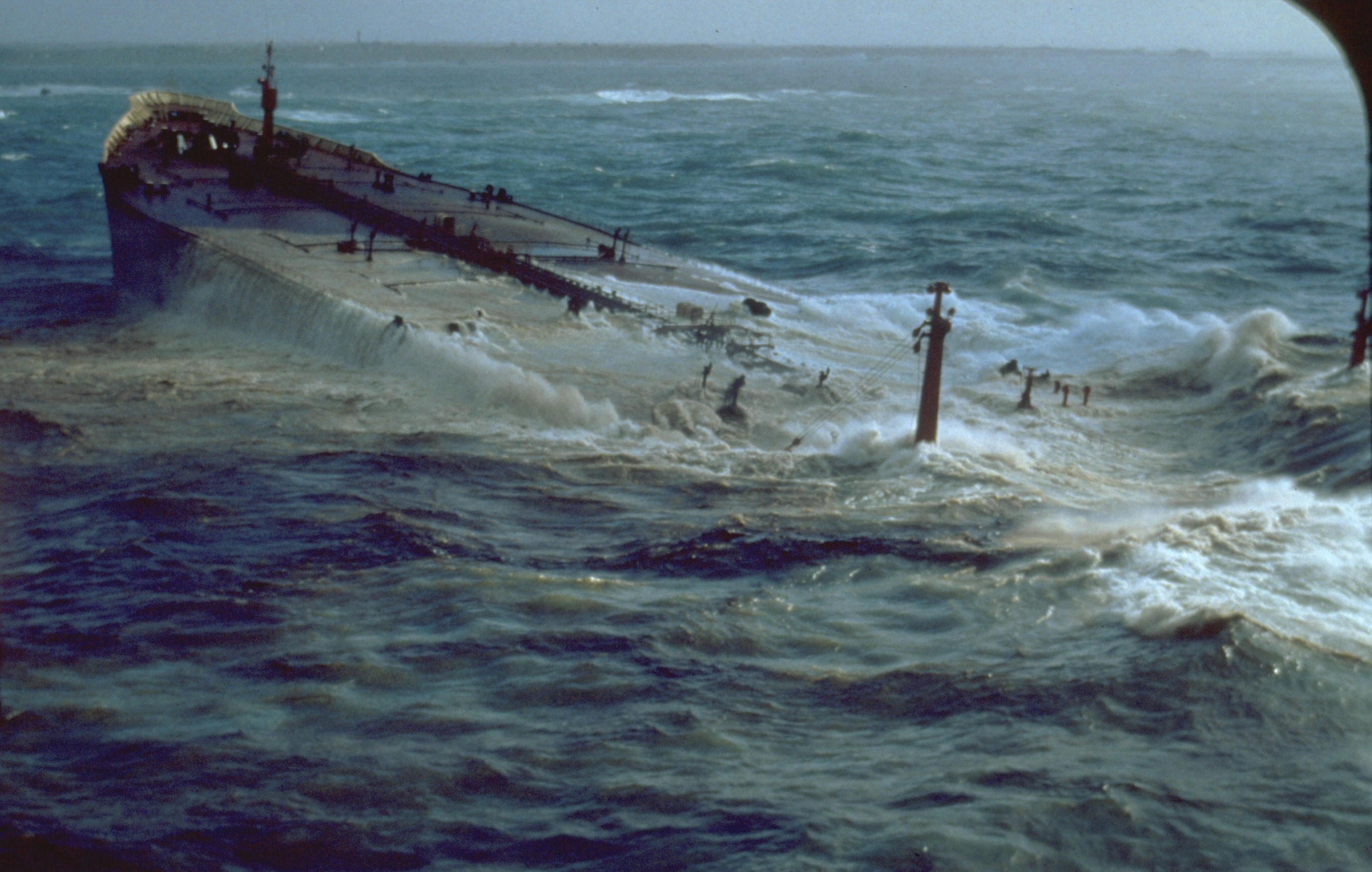 AMOCO CADIZ grounding and oil spill, Brittany, France. Sinking tanker.